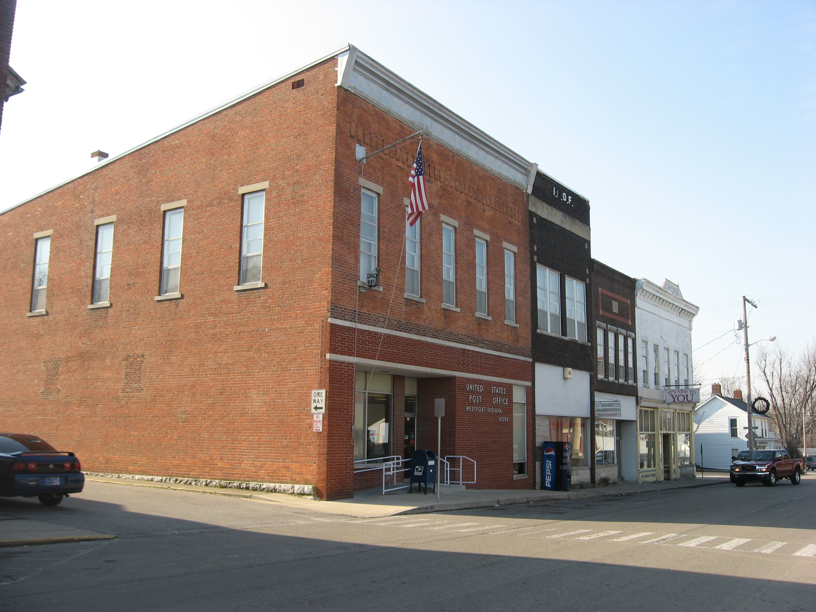 Buildings on the southern side of the 200 block of E. Main Street in Westport, Indiana, United States. The two closest buildings, which formerly housed lodges of the Knights of Pythias and the Independent Order of Odd Fellows respectively, were both built in 1916.